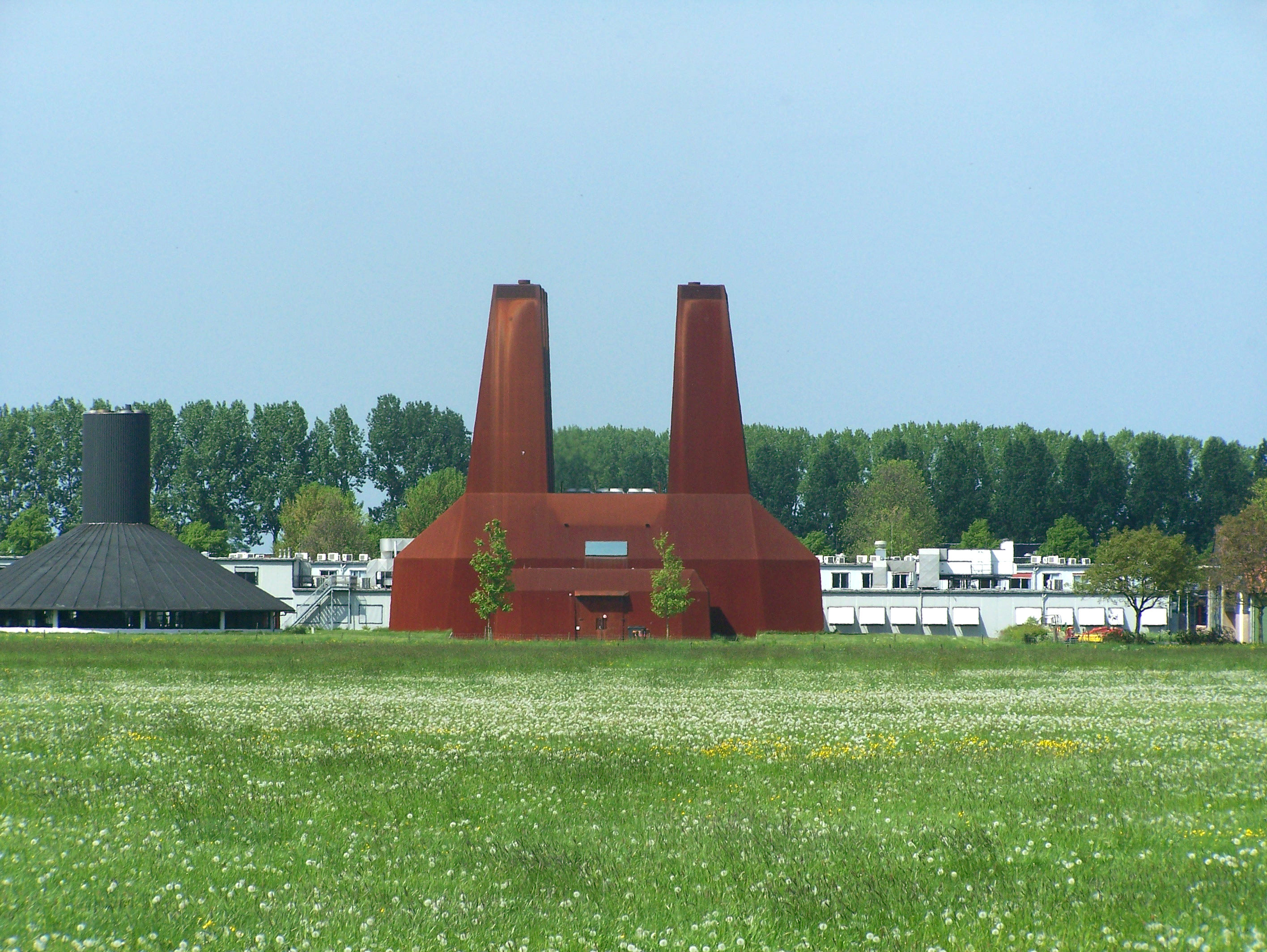 Combined Heat and Power installation 3, build in 2004-2005 and designed by Liesbeth van der Pol (Dokarchitecten). Situated at the Limalaan at the Utrecht University complex "Uithof".